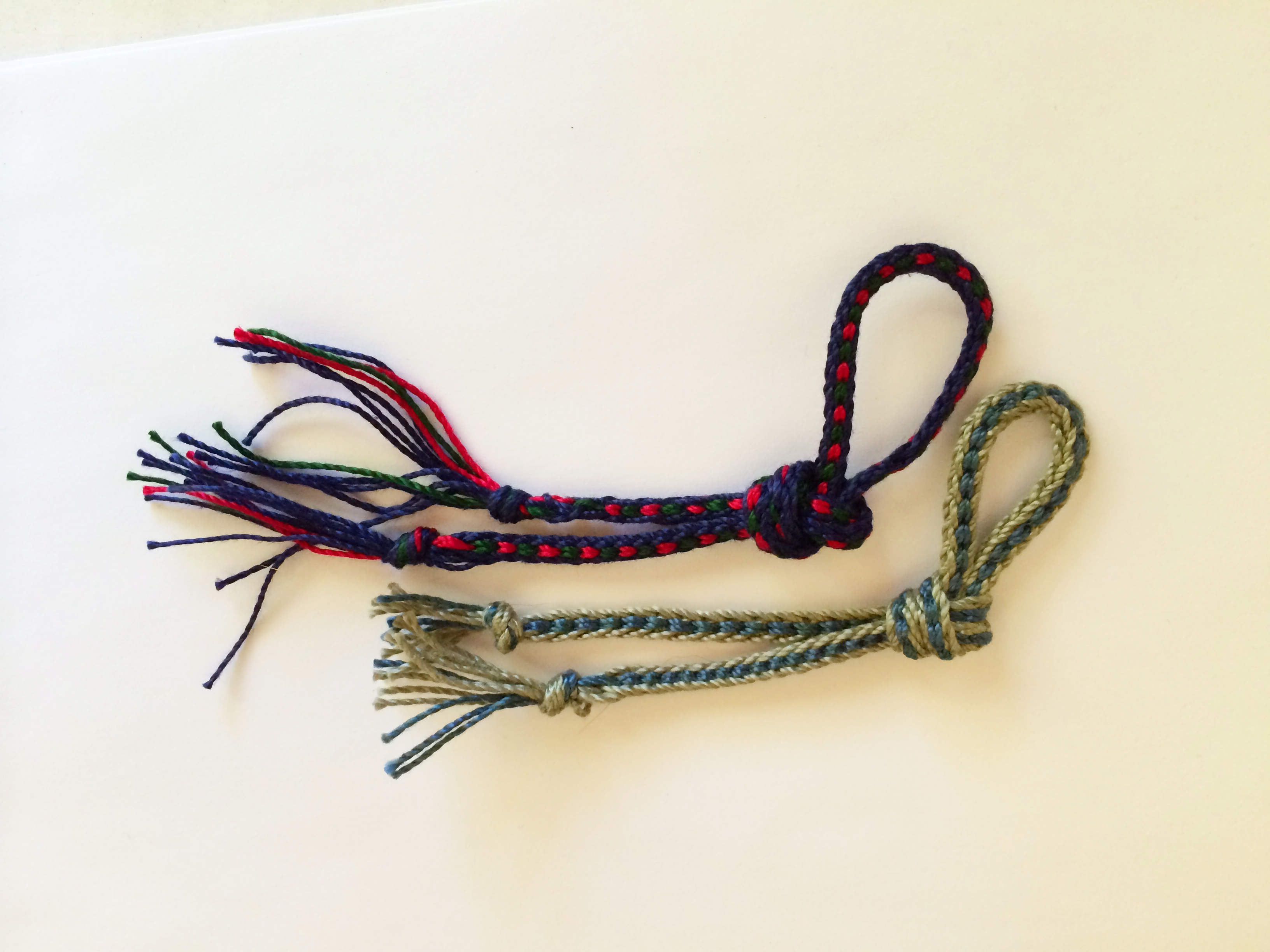 Two lengths of fingerloop braid in the "grene dorge" or barleycorn pattern, worked in perle cotton thread.